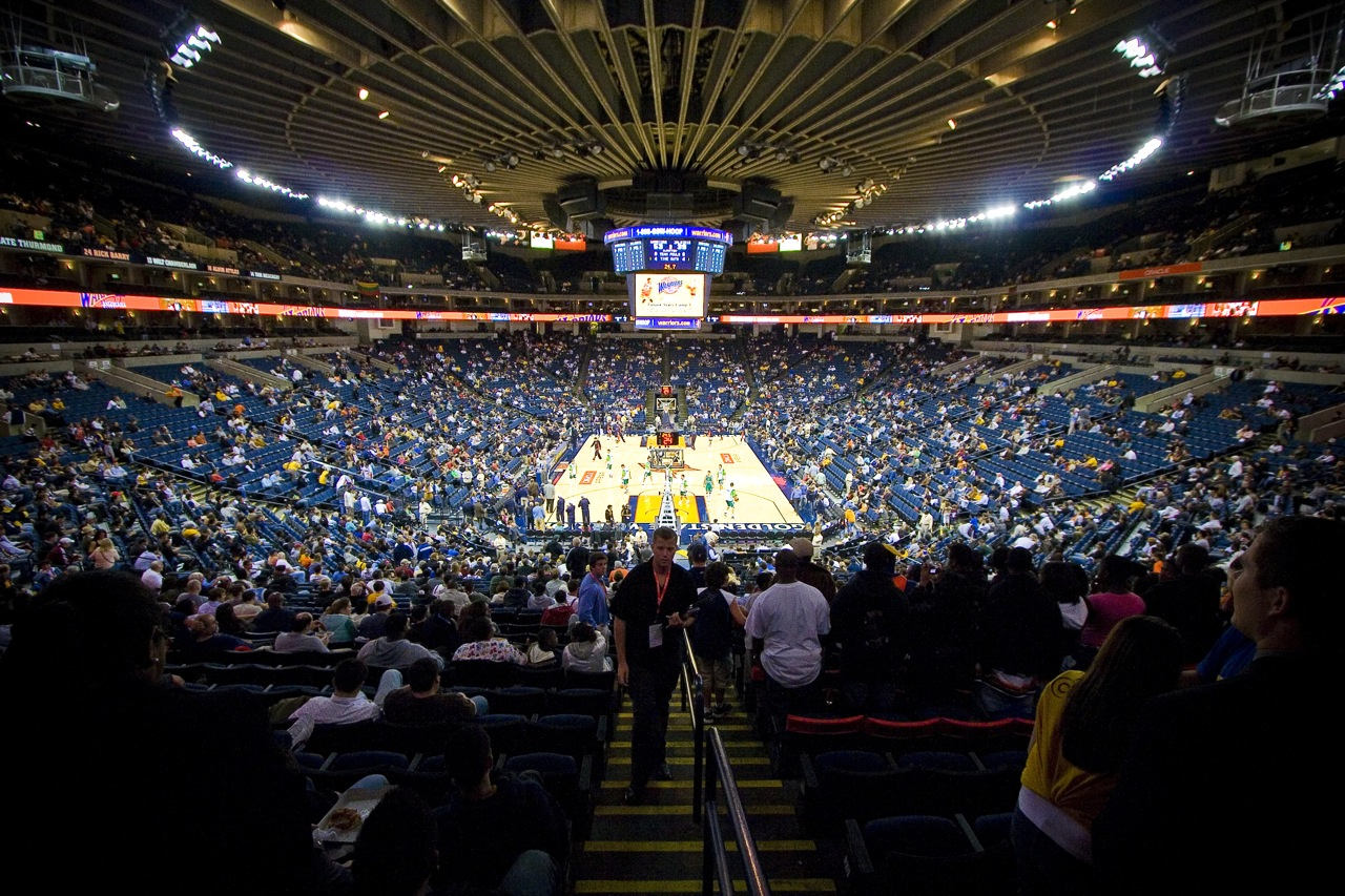 Kaunas Žalgiris playing against Golden State Warriors in their home arena (Oracle arena).